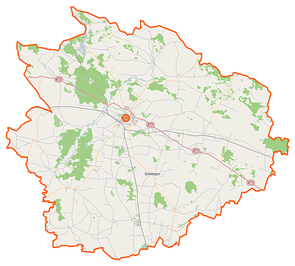 Map of Powiat sierpecki, Poland This map of Powiat sierpecki was created from OpenStreetMap project data, collected by the community. This map may be incomplete, and may contain errors. Don't rely solely on it for navigation. Border coordinates52.999119.4094←↕→20.014352.6697